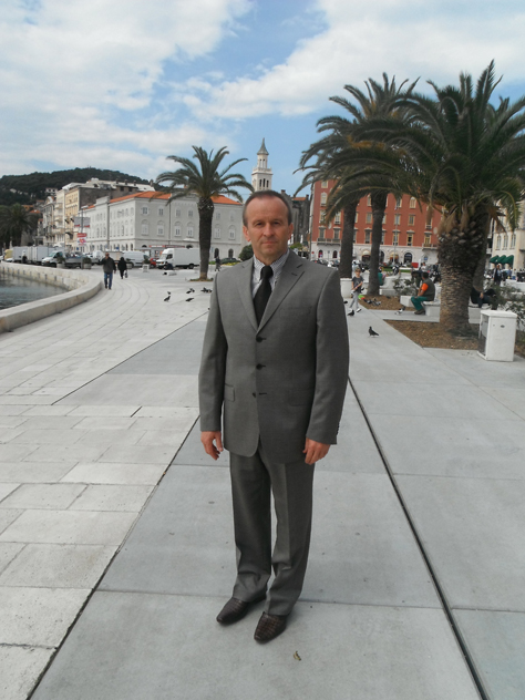 Picture of Mr Dragan Đokanović